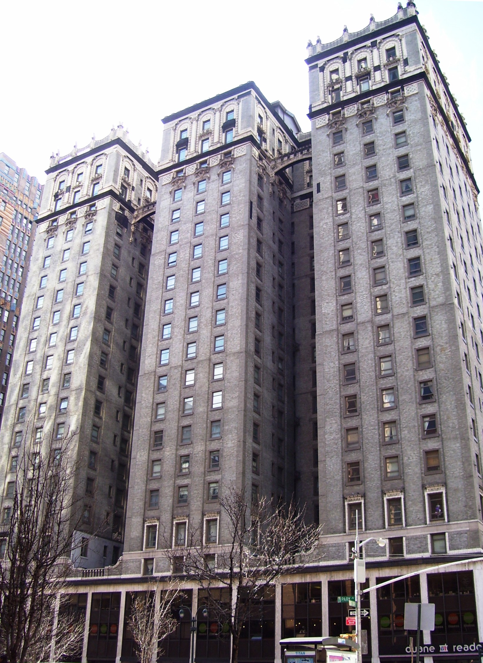 The building at 4 Park Avenue, between East 33rd and 34th Street in the Murray Hill neighborhood of Manhattan, New York City, was built as the Vanderbilt Hotel in 1910-13, designed by Warren & Wetmore, but is now used for officed. The old crypted vault of the hotel is a NYCLPC interior landmark, and is currently a restaurant. (Source: AIA Guide to NYC (4th ed.), Guide to NYC Landmarks (4th ed.))